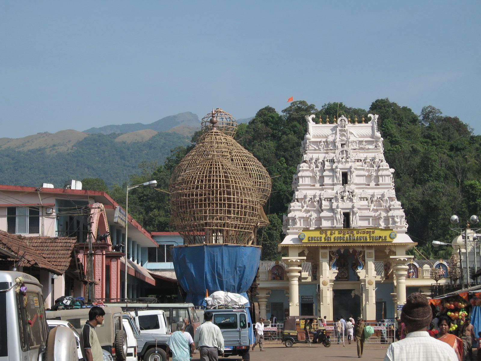 Picture of Kukke Subhramanya temple at Kukke near Mangalore in Karnataka state, India. This temple is a very holy center of pilgrimage.